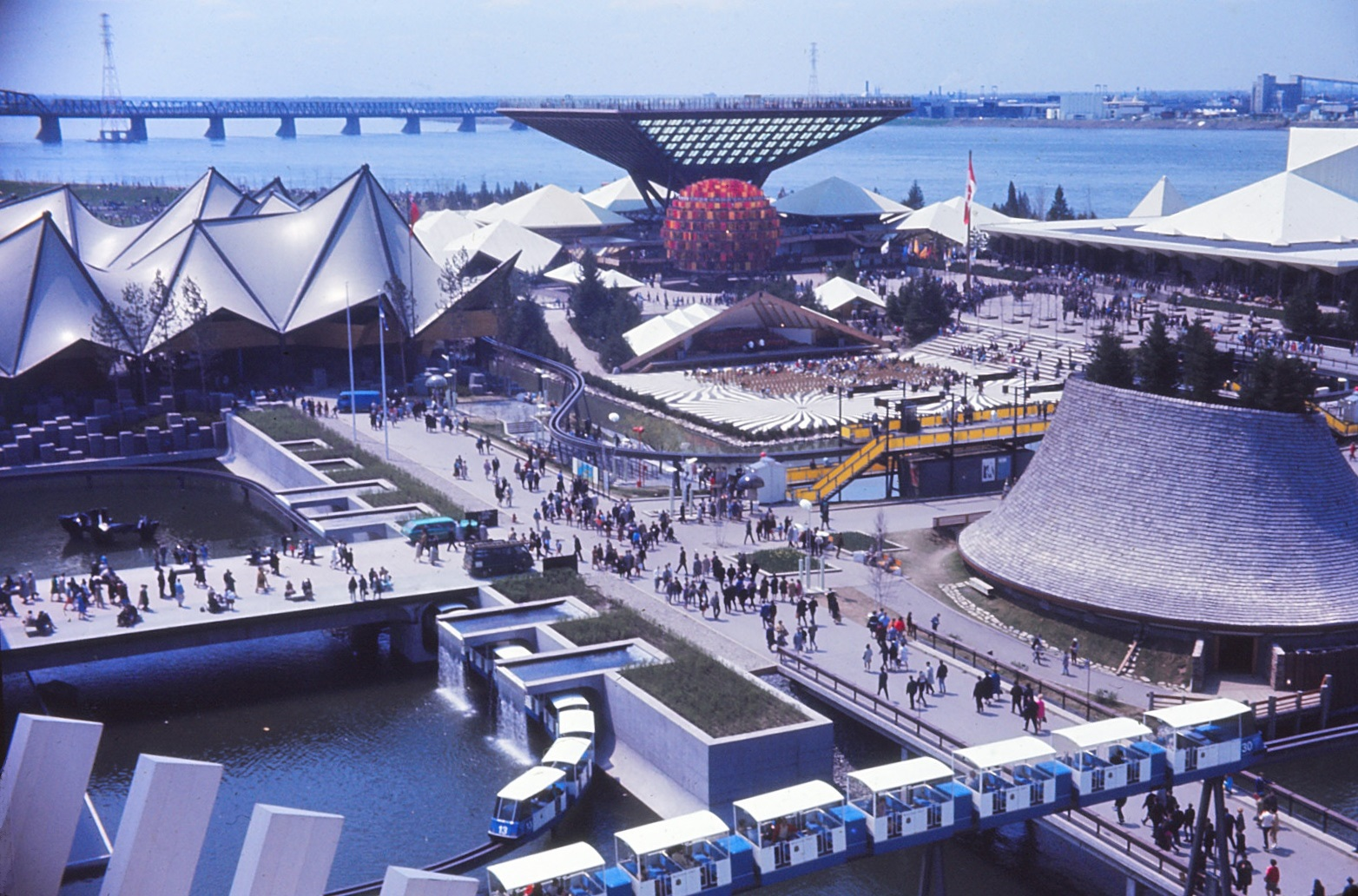 Pavilions of Ontario, Canada, Western Provinces, seen from the pavilion of France. On the left, the basin and waterfalls of the Quebec pavilion. One can see the Minirail surrounding the pavilions. Expo 67, Montreal, Quebec, Canada.